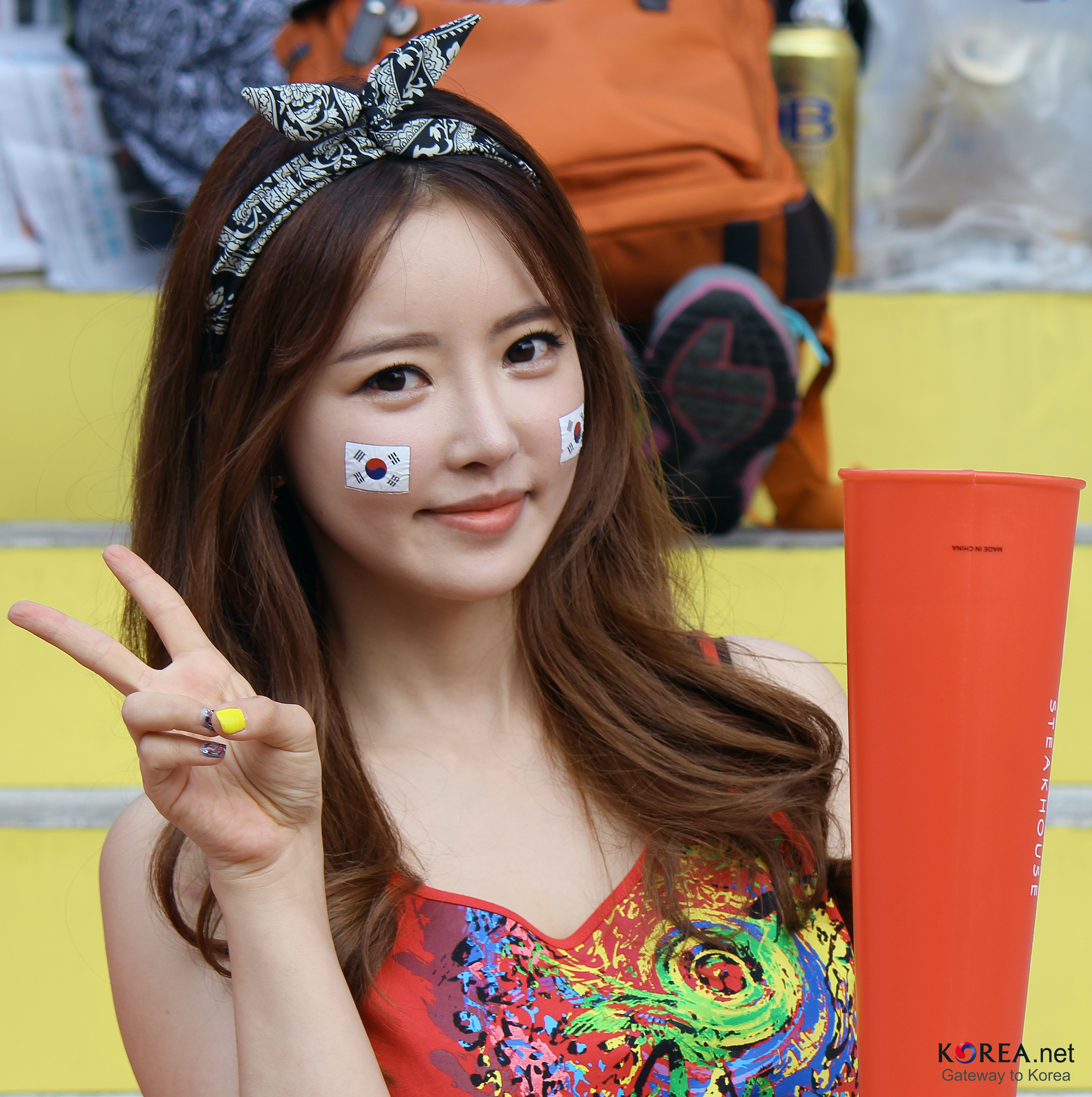 2014 FIFA World Cup in Brazil. Cheers for Team Korea